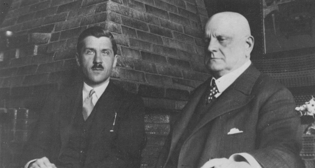 Photograph of the Russian pianist Nikolai Andreyevich Orlov (1892–1964) with Jean Sibelius in Ainola, Finland.